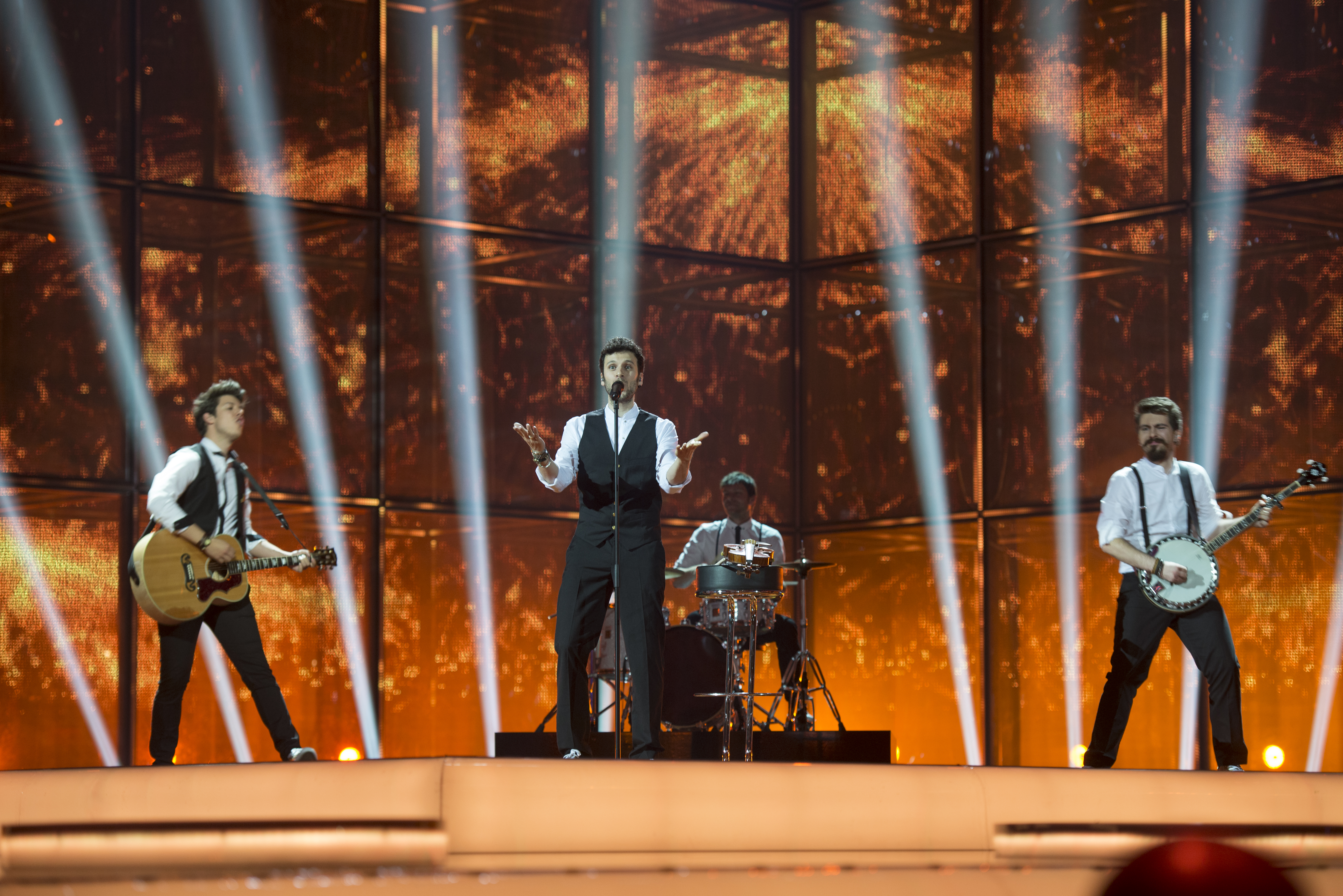 Sebalter representing Switzerland with the song "Hunter of Stars" during the first dress rehearsal of the second semi final of the Eurovision Song Contest 2014 Copenhagen. (Help translate this text)